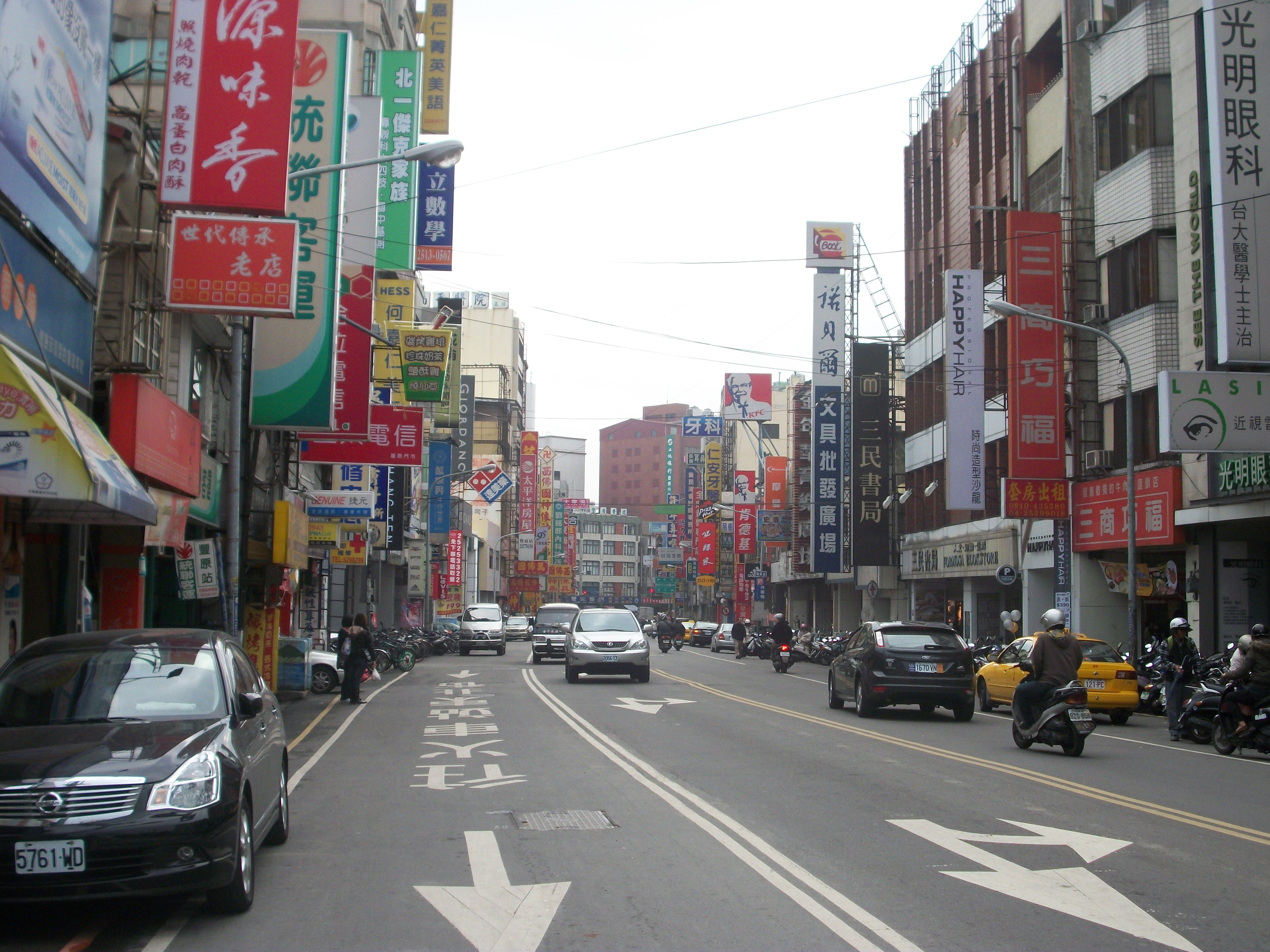 Looking southward alongside the Jhungjheng Road in Fengyuan City,Taiwan.